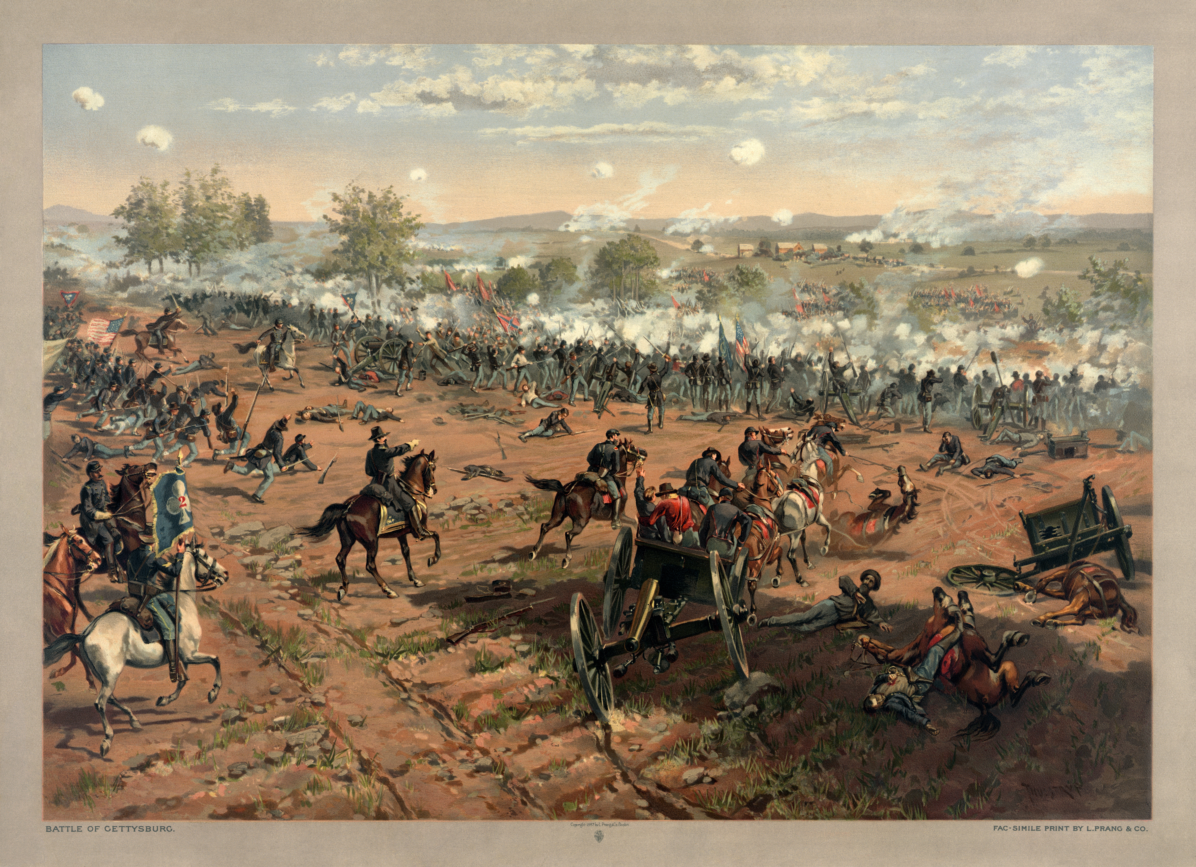 L. Prang & Co. print of the painting "Hancock at Gettysburg" by Thure de Thulstrup, showing Pickett's Charge. This is a retouched picture, which means that it has been digitally altered from its original version. Modifications: This image, like many Thulstrup prints, was done on vellum, with a characteristic dappling effect when the light of the LoC's scan reflects off the dimples from the hair pores on the right and left edges. This is a highly distracting effect that required a fair bit of cleanup. Also, levels adjustments, etc.. N.B. No other files: They're too large to upload. =/